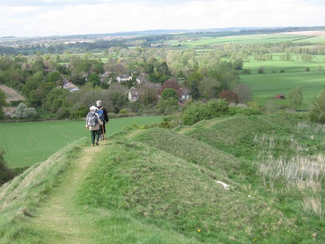 Ramparts of Spettisbury Rings A hill just South of Spetisbury was used as a hill fort by a British tribe, protected by great ramparts around the living area. The Romans took over in 45AD, the battle left many skeletons discovered when the railway nearby was constructed around 1860.